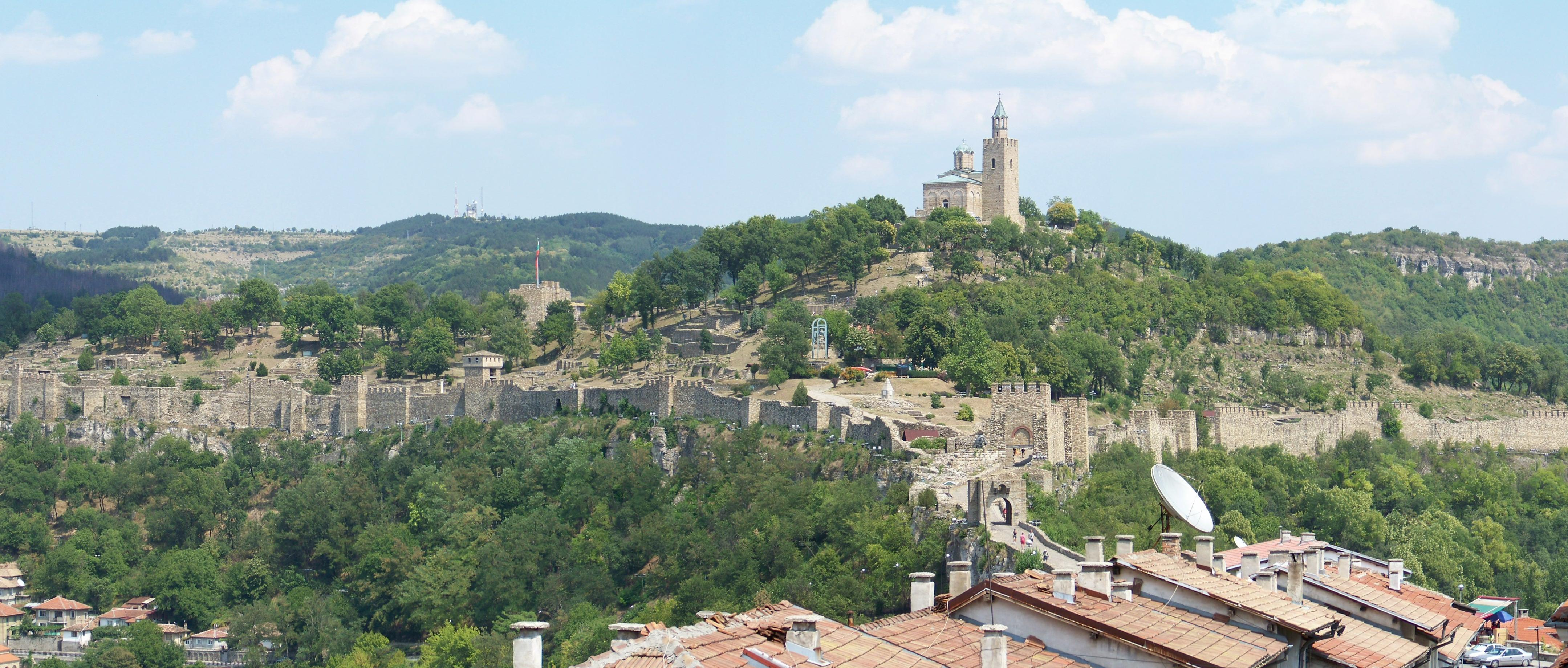 A panoramic view of the Tsarevets fortress, Veliko Tarnovo, Bulgaria